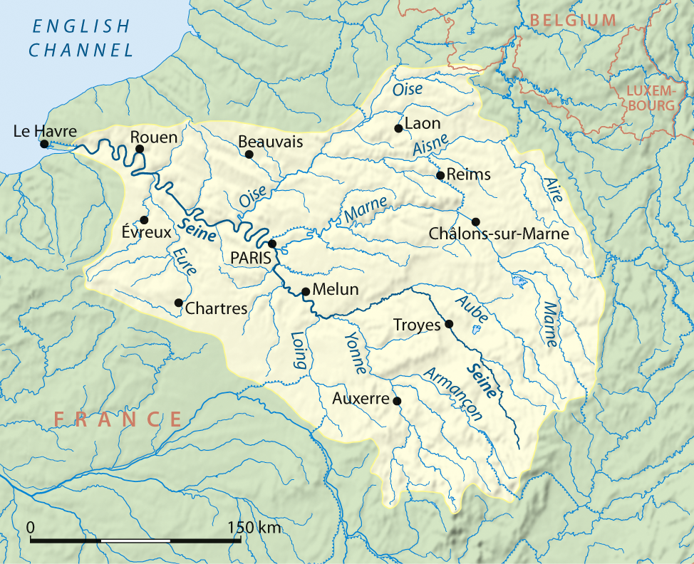 Drainage basin of Seine, English version